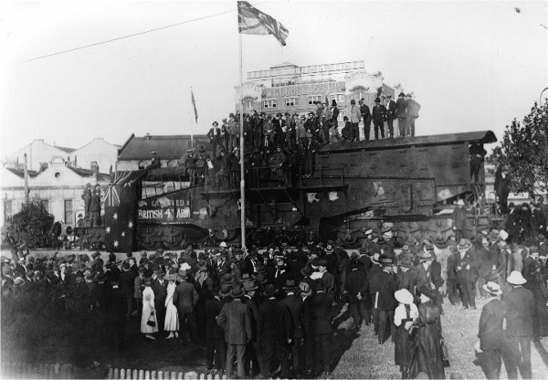 Opening Ceremony for the 28-cm railway gun ("Amiens Gun") captured by Australian troops in World War I. Outside Sydney's Central Station.